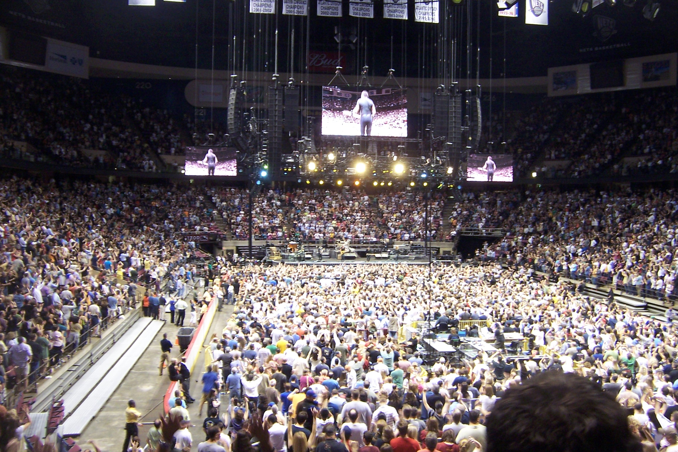 Bruce Springsteen and the E Street Band playing "Rosalita" at Meadowlands Arena